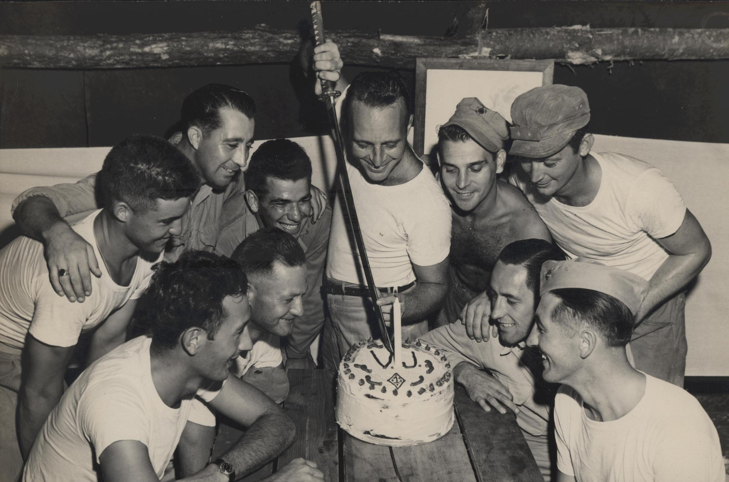 "Victory Carving-First Division Marines on Okinawa gather around Corporal John Dulin as he wields a Japanese samurai sword to cut a VJ cake that he baked for the celebration. That isn't sugar cake though, the icing is made of starch." From the Marion Fischer Collection (COLL/858), Marine Corps Archives & Special Collections OFFICIAL USMC PHOTOGRAPH